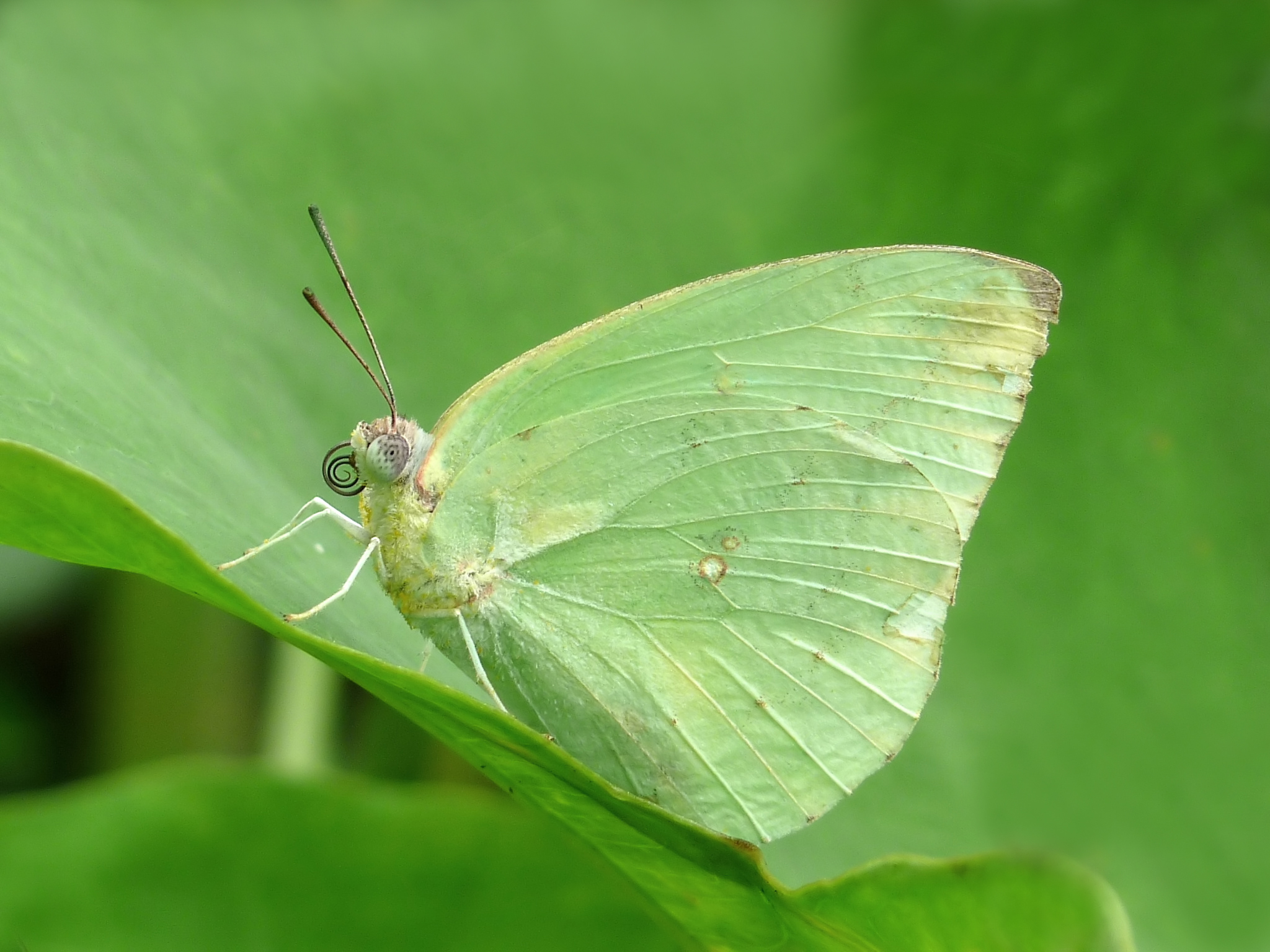 Catopsilia pomona 'pomona' male f. hilaria The Common Emigrant or Lemon Emigrant (Catopsilia pomona) is a medium sized pierid butterfly found in Asia and parts of Australia. The species gets its name from its habit of migration. This is a very variable species with many named forms. There are two male forms, f. alcmeone and f. hilaria, and five female forms, f. pomona, f. crocale, f, jugurtha, f. catilla and f. nivescens. Of theses, f. alcmeone is the commonest male form, and f. crocale is the commonest female form for most of the year. However, during the months of May- July, f. jugurtha appears to be more common. The remaining forms are present for most of the year, but in lesser quantities. The 'crocale' forms - antennae black above and underside of wings without silvery spots at the cell-ends. Upperside creamy white wings with base of wings lemon-yellow. Forewing apex margined thinly with black - male, form alcmeone (Cramer 1777). Upperside creamy white wings with costal margin of forewing and both termens bordered with black. There is also black submarginal markings, a black cell end spot on the forewing and wing bases are tinged with yellow - female, form jugurtha (Cramer 1777). Both wings have broad black distal borders bearing a series of large, diffuse, interneural whitish spots - female, form crocale (Cramer 1775). The 'pomona' forms - antennae red above and underside of wings with silvery spots outlined in red at cell-ends. Resembles male form alcmeone. However, the lemon-yellow base is more restricted especially absent in the hindwing tornal area - male, form hilaria (Stoll 1781). Pale yellow wings with black bordering and reduced markings - female, form pomona (Fabricius 1775). Similar to form pomona but with white wings - female, form nivescens (Fruhstorfer 1910). Red blotches on the underside - female, form catilla (Cramer 1779). Taken at Kadavoor, Kerala, India.